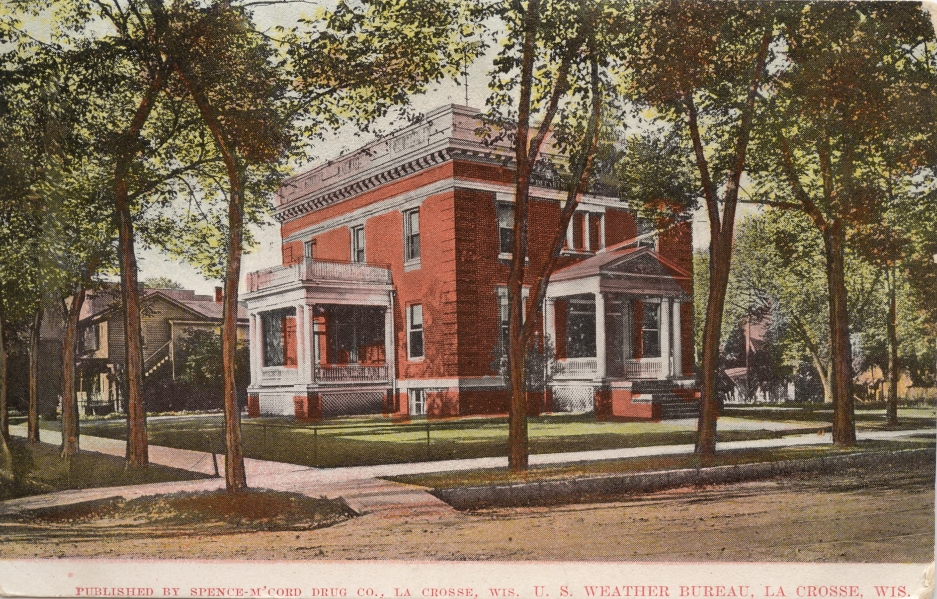 Postcard of the U.S. Weather Bureau Building at La Crosse, Wisconsin. 1900 Circa.